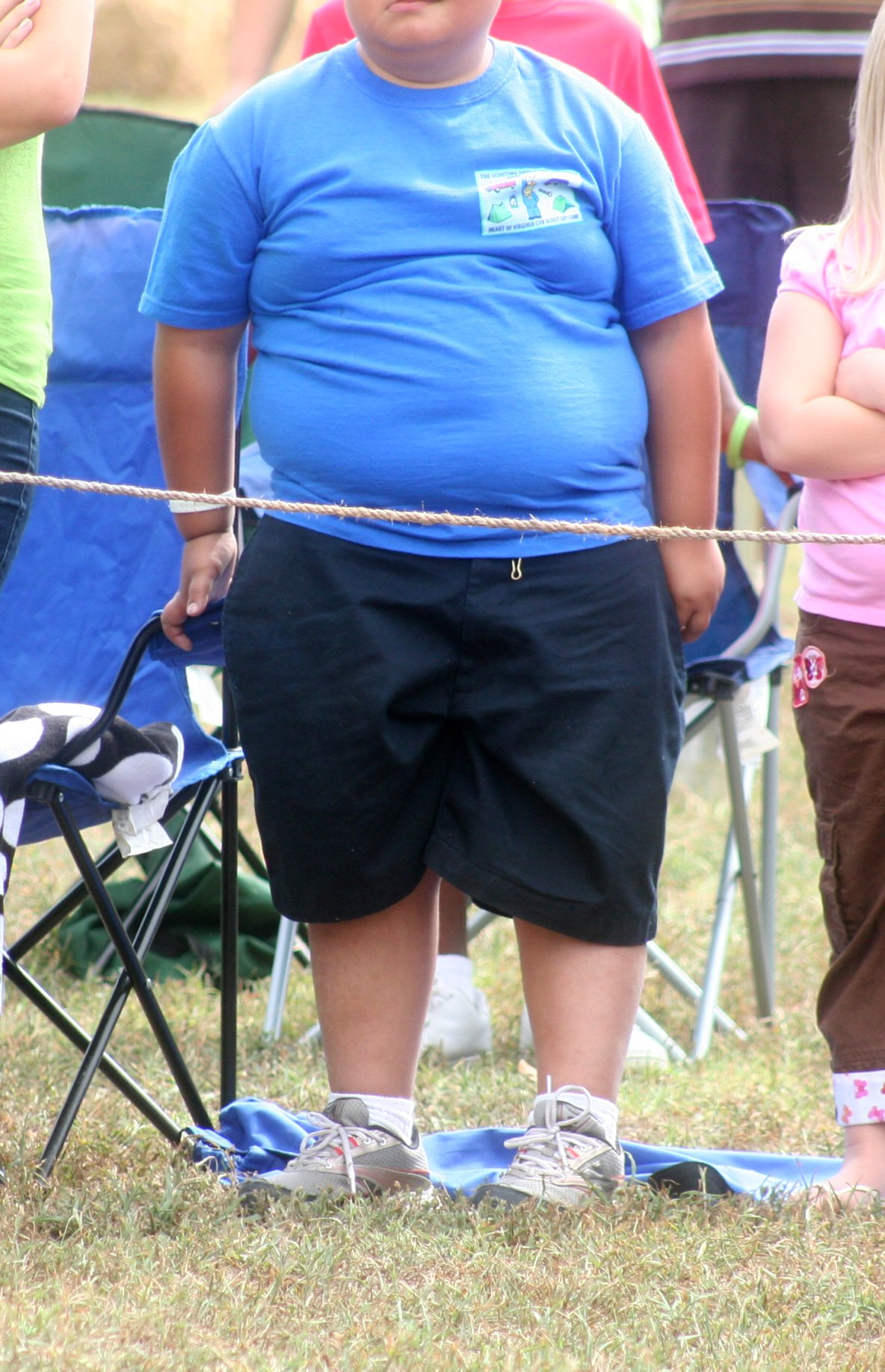 It is a shame that a young boy, maybe 10 years old, is already this fat. If he, or his family, does not get this under control he is looking at a bleak future.